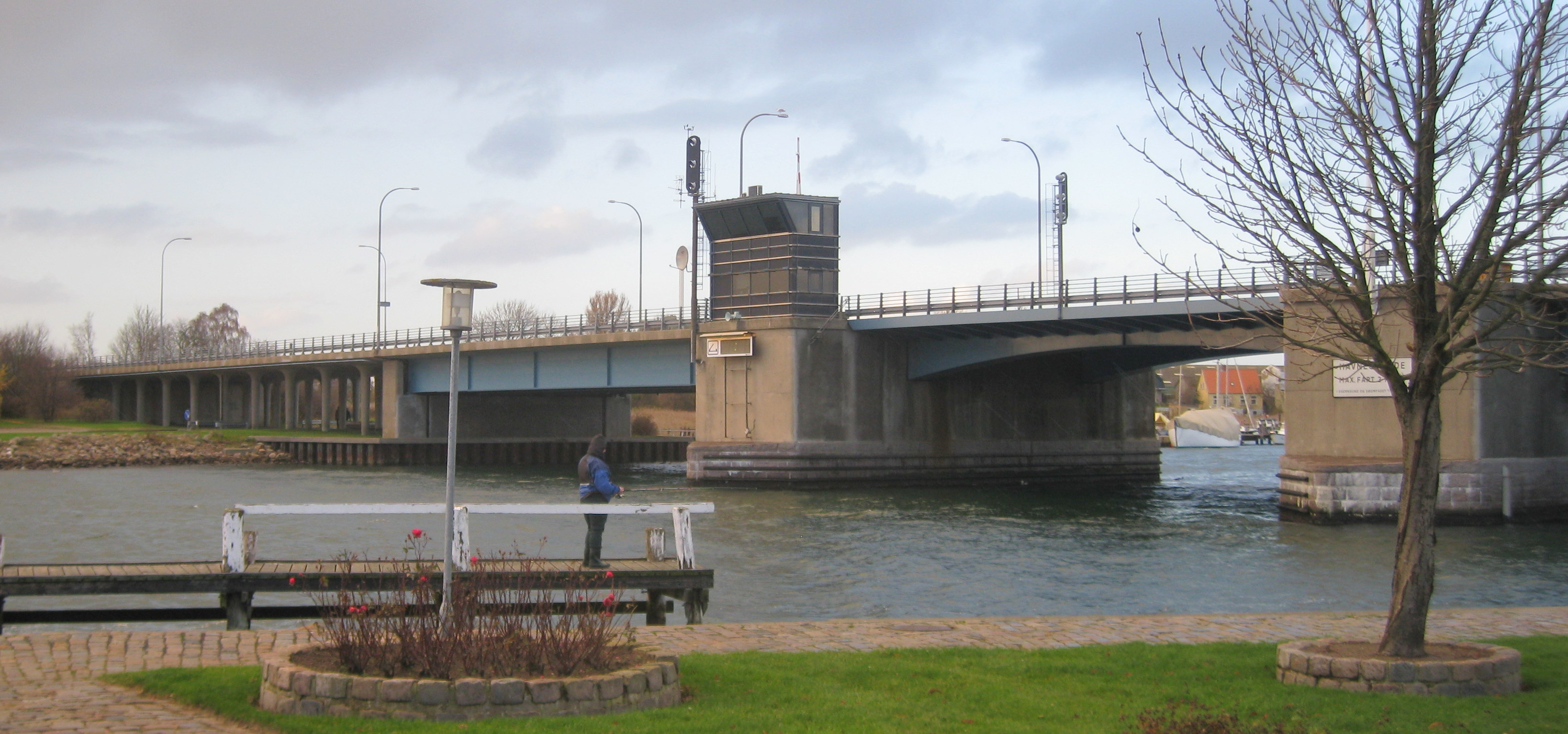 The Egernsund bridge, Denmark. View from Egernsund harbour.